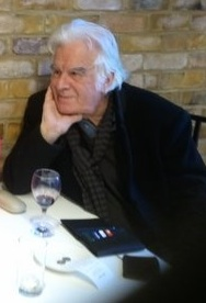 Photo of Art Historian Adrian Darmon with Reginald Gray at Partridges, Chelsea, London, February 2011.